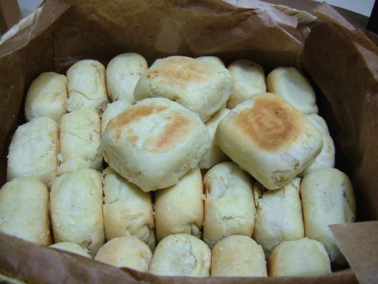 Sweet pie from Tegal, Central Java